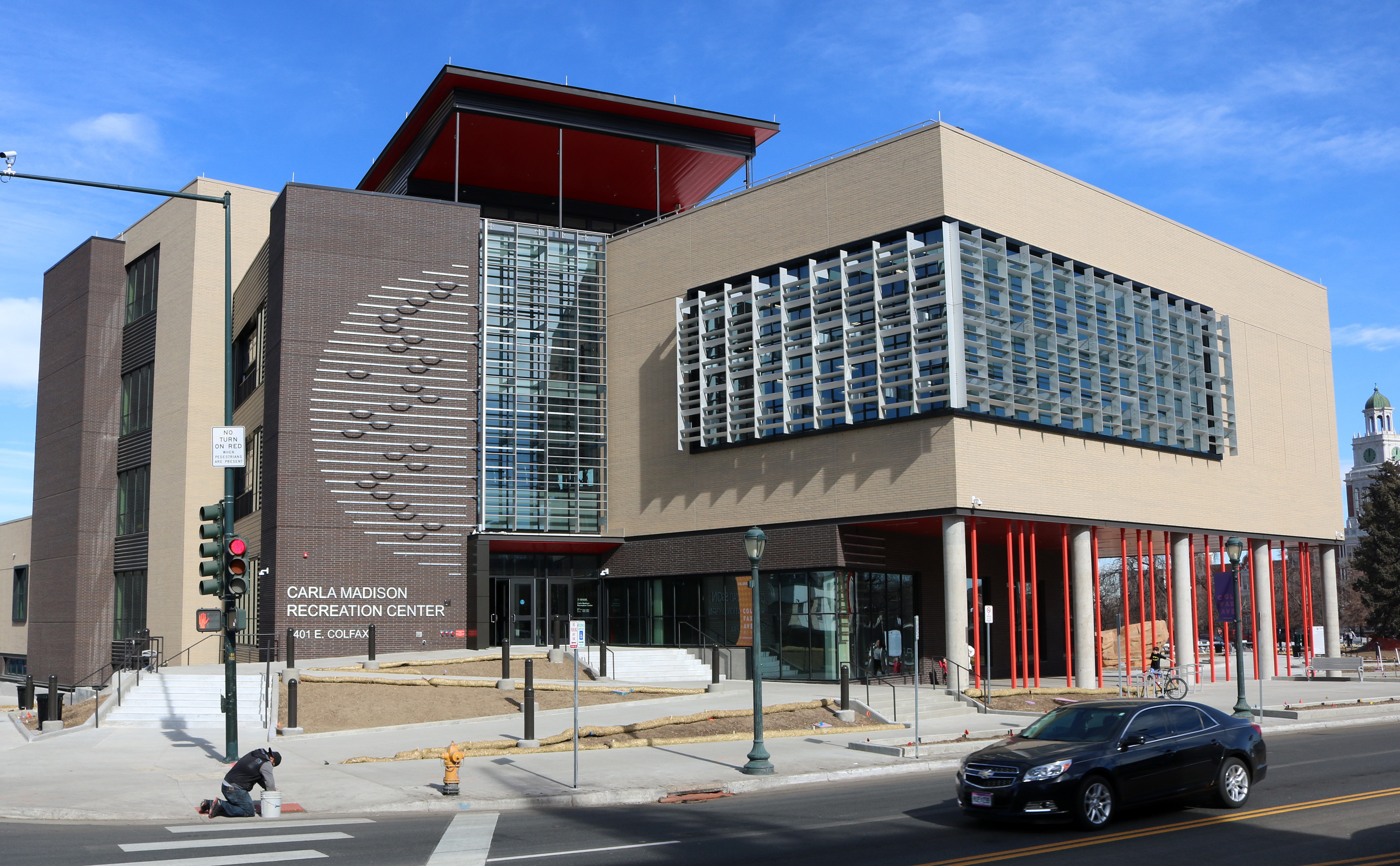 The Carla Madison Recreation Center, located at 2401 East Colfax Avenue in Denver, Colorado. The center is owned and run by the City and County of Denver.